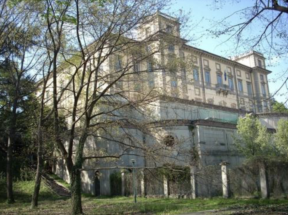 Villa Pusterla Crivelli